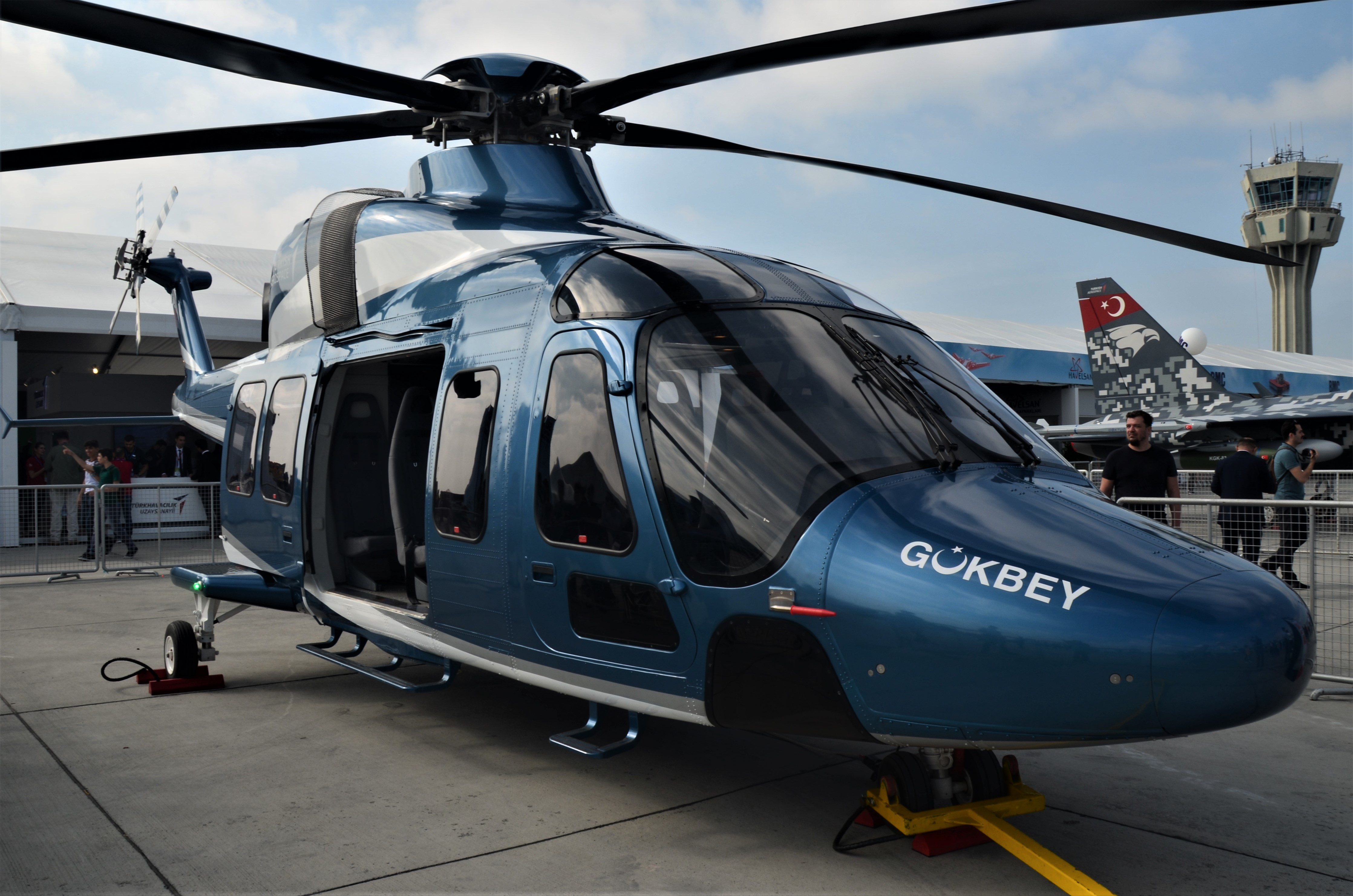 TAI T625 helicopter at Teknofest 2019